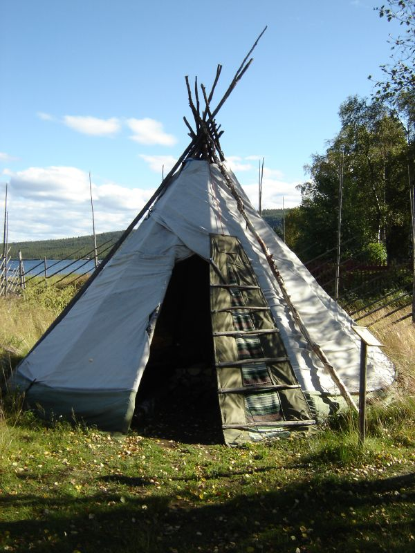 Sami tent at the open air museum in Jukkasjarvi.